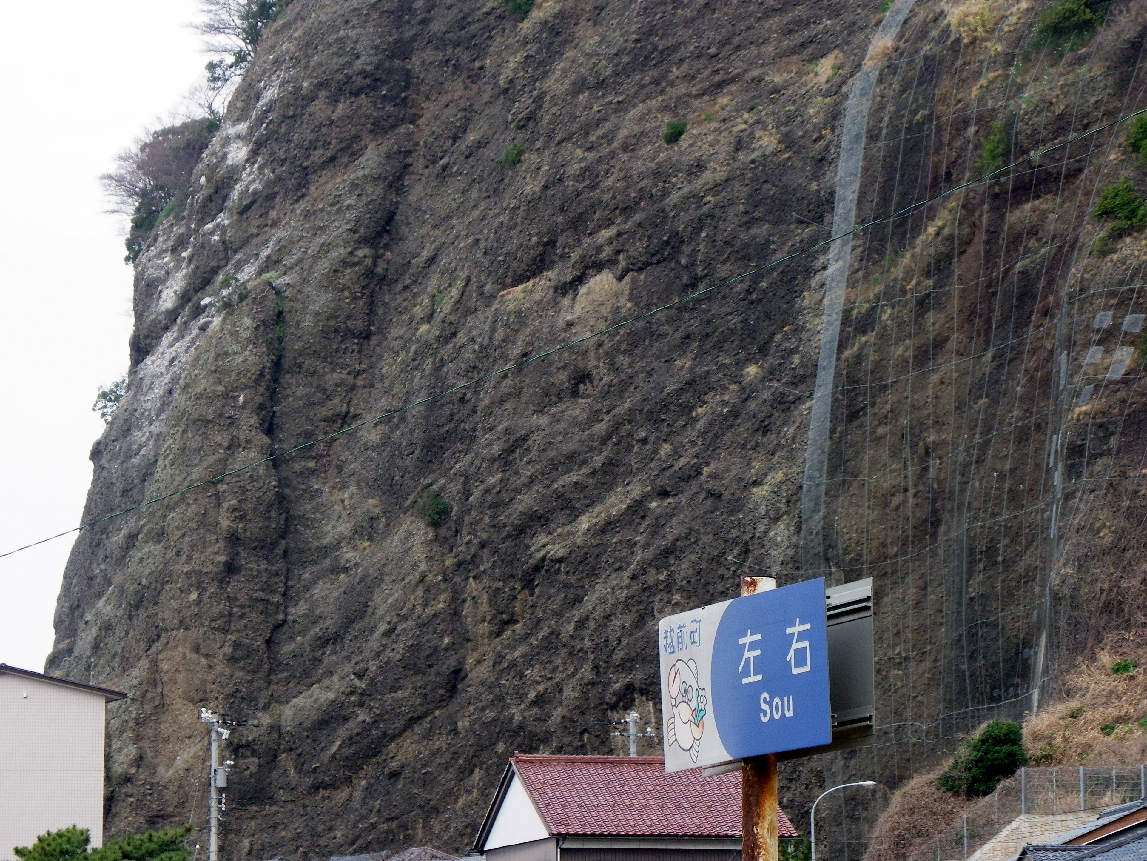 Torikusoiwa is seen from Sou.